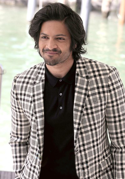 Ali Fazal at the World Premiere of Victoria & Abdul.